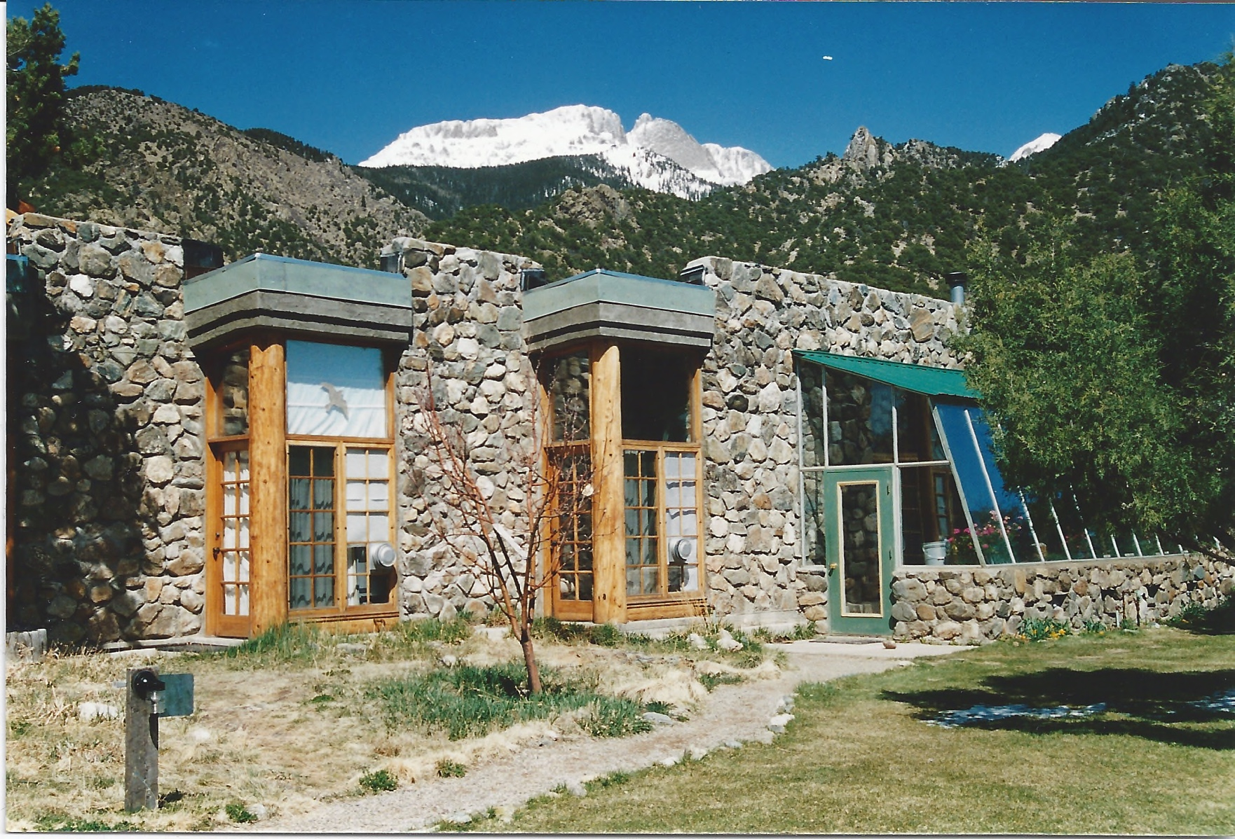 Lindisfarne Fellows House, solar passive, earth-bermed stone house designed by former California State Architect Sim Van der Ryn.